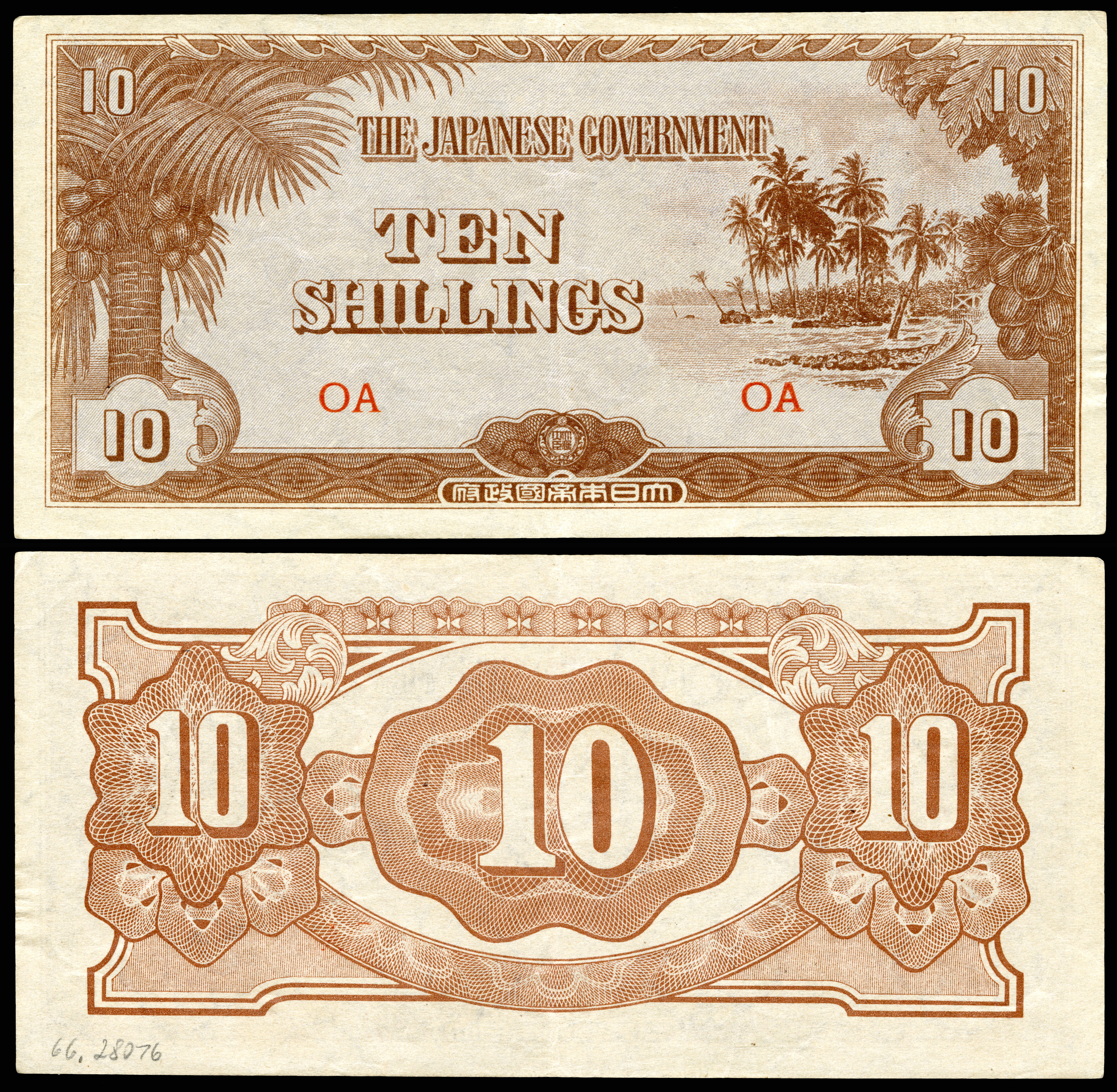 OCE-3a-Oceania-Japanese Occupation-10 Shillings ND (1942)